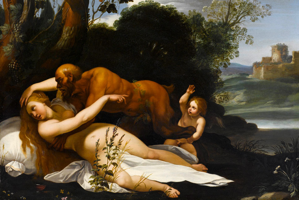 Giove e Antiope by Giuseppe Cesari detto Cavalier d’Arpino